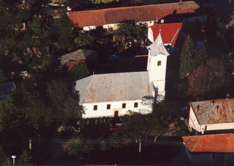 Olaszliszka, Hungary, aerialphotography This is a photo of a monument in Hungary, Identifier: 3008